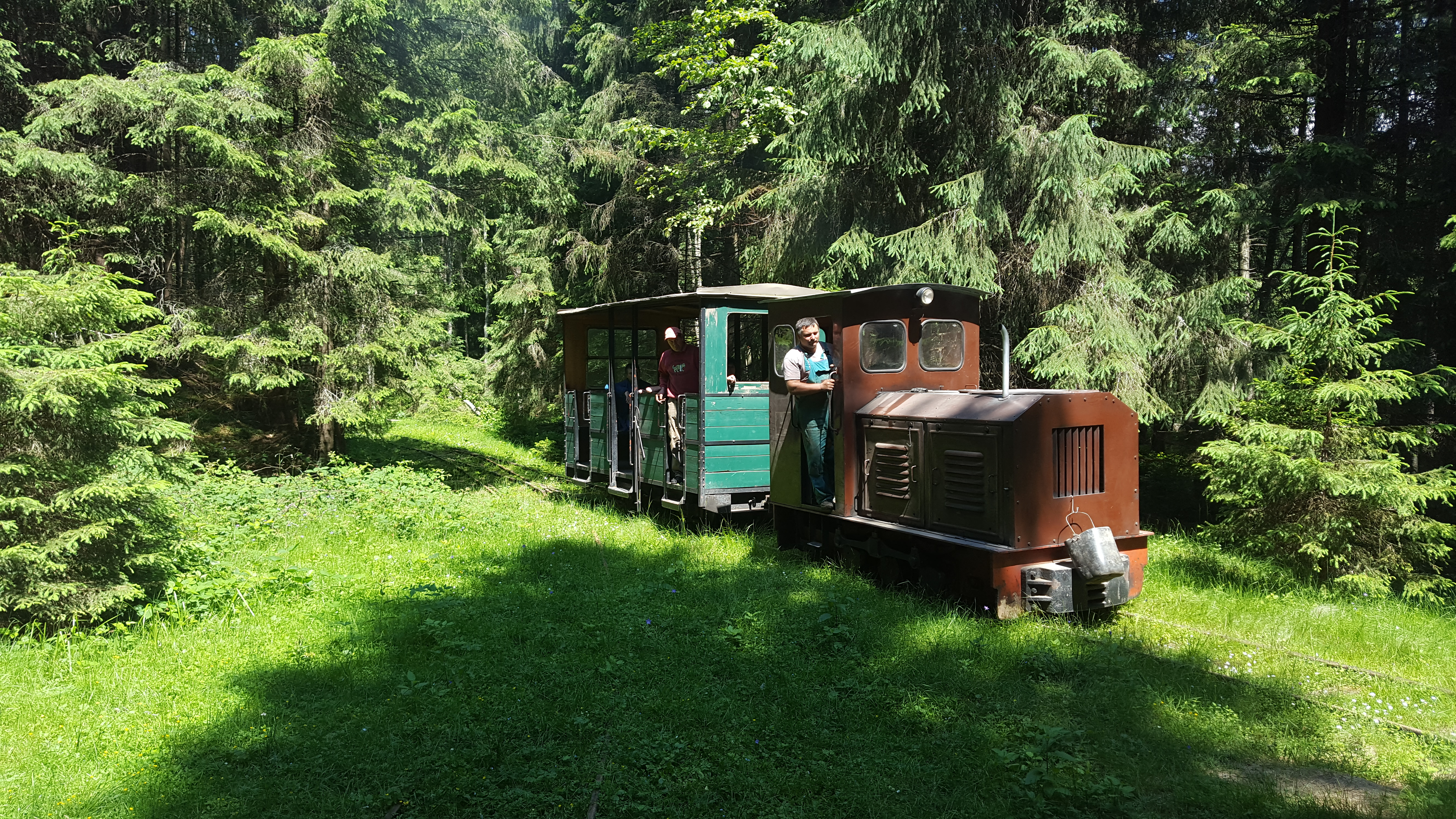 Tourist train on the upper part of narrow-gauge railway in Comandău, Romania